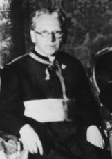 croppped this from a photo in the Bundesarchive donations at wikimedia commons. verified the dudes name/pic with other sources on the 'net. Its from a Konkordatsunterzeichnung , or Reichskonkordat, meeting in Rome. for the original shot.